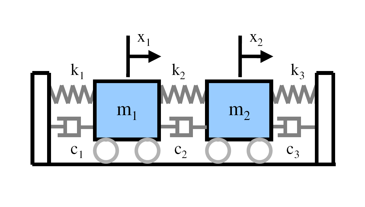 Vibration article